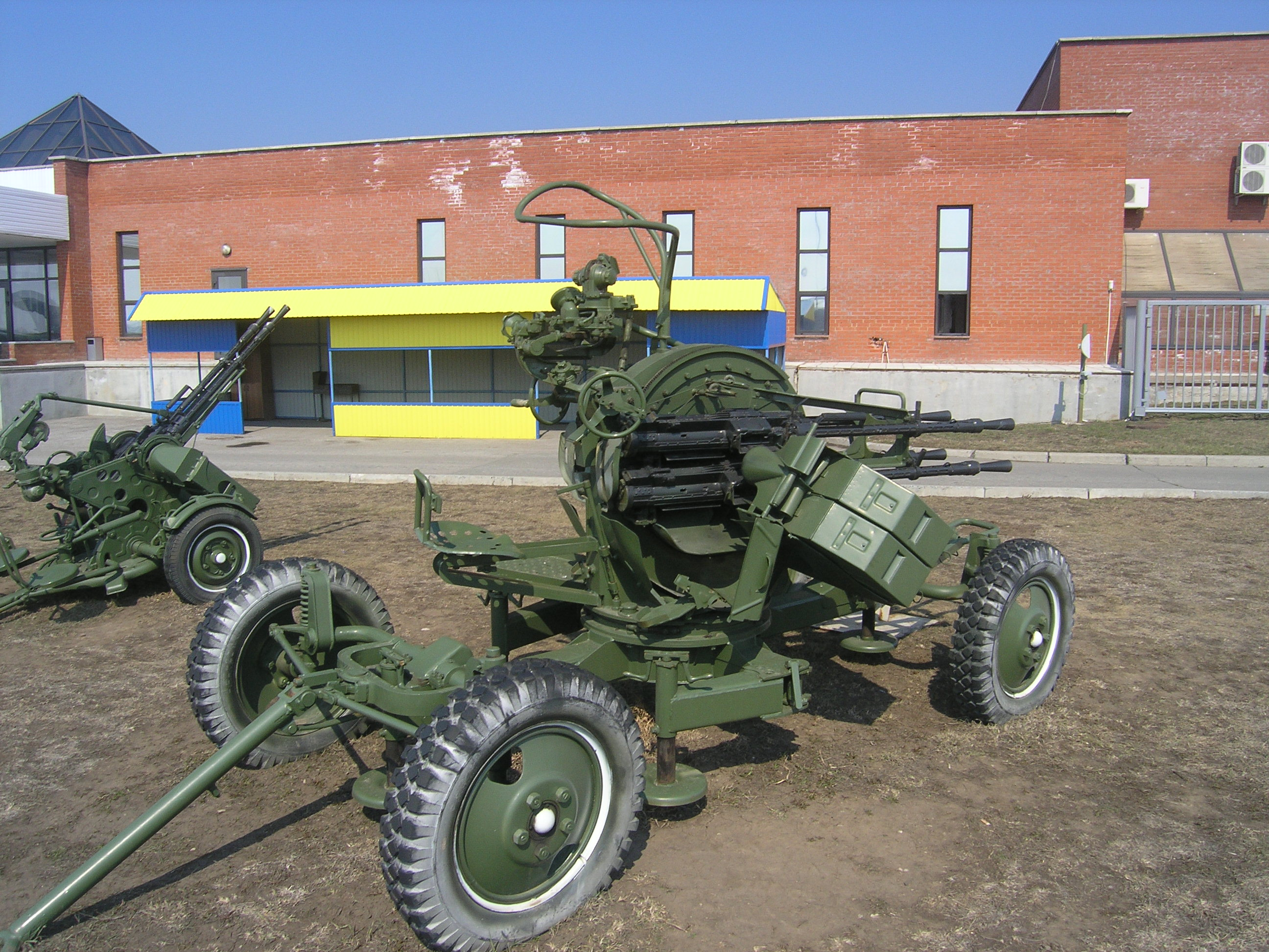 ZPU-4 anti-aircraft gun in Technical museum Togliatii